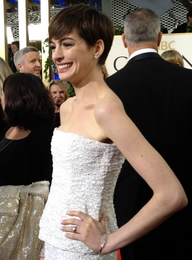 Anne Hathaway at the Golden Globes 2013.